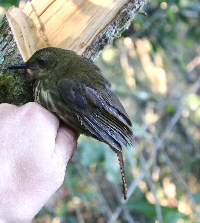 Arcanator orostruthus USFWS photo